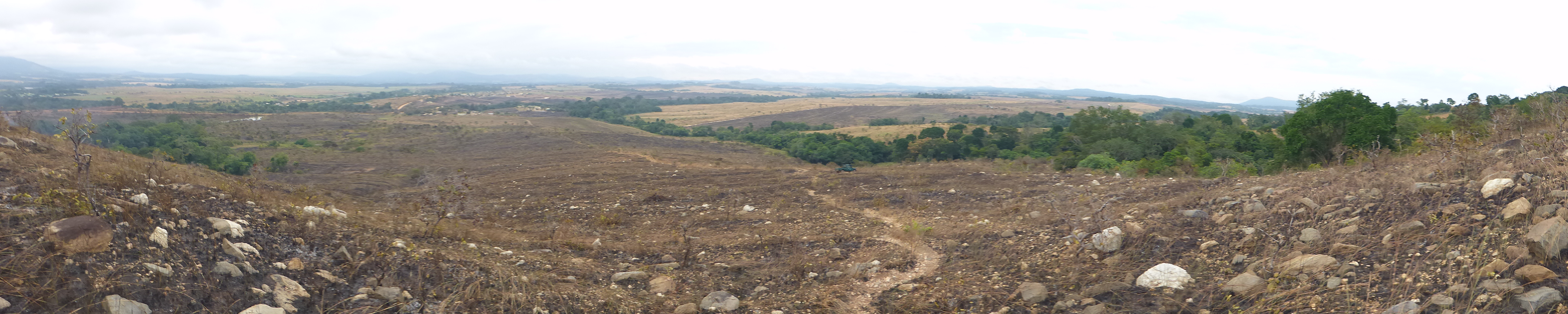 Panorama of Lopé National Park, taken shortly after annual burning